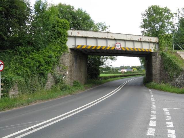 Railway Overbridge, A465